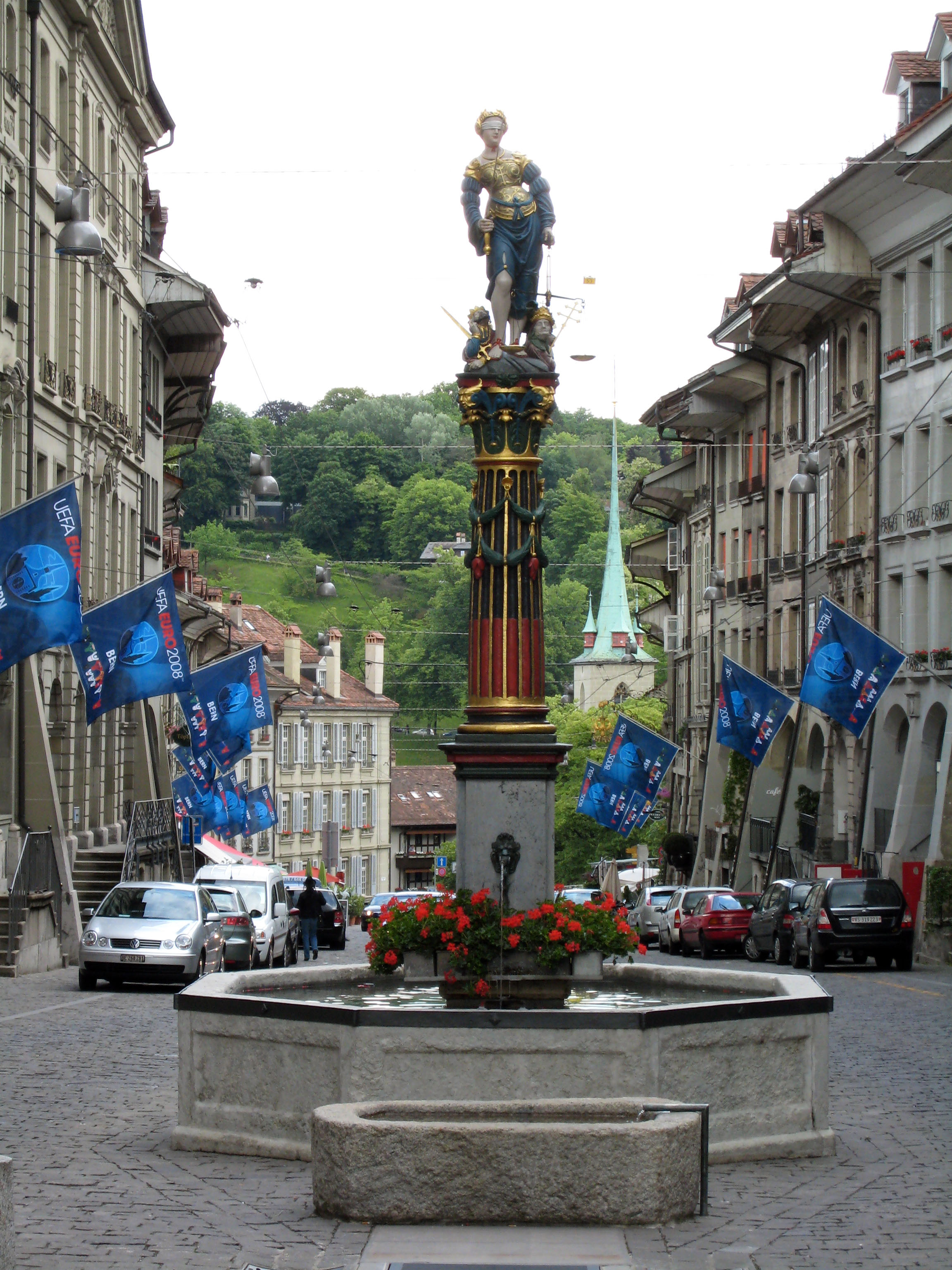 Gerechtigkeitsbrunnen, Gerechtigkeitsgasse, Berne, Switzerland.